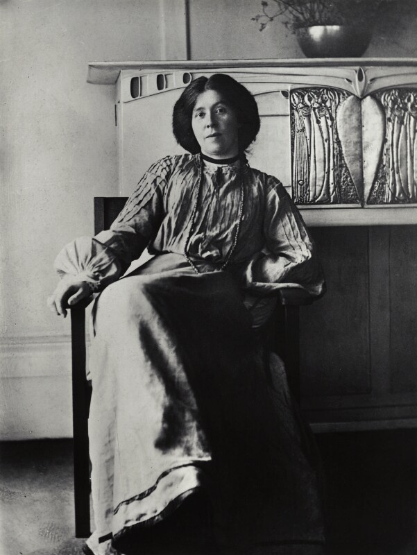 Artist Margaret MacDonald Macintosh (1864-1933)